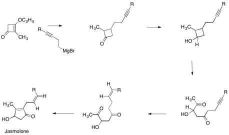 Jasmolone Production